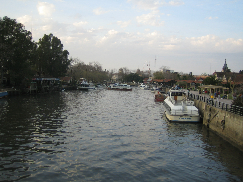 Tiger river - Buenos Aires - Argentina